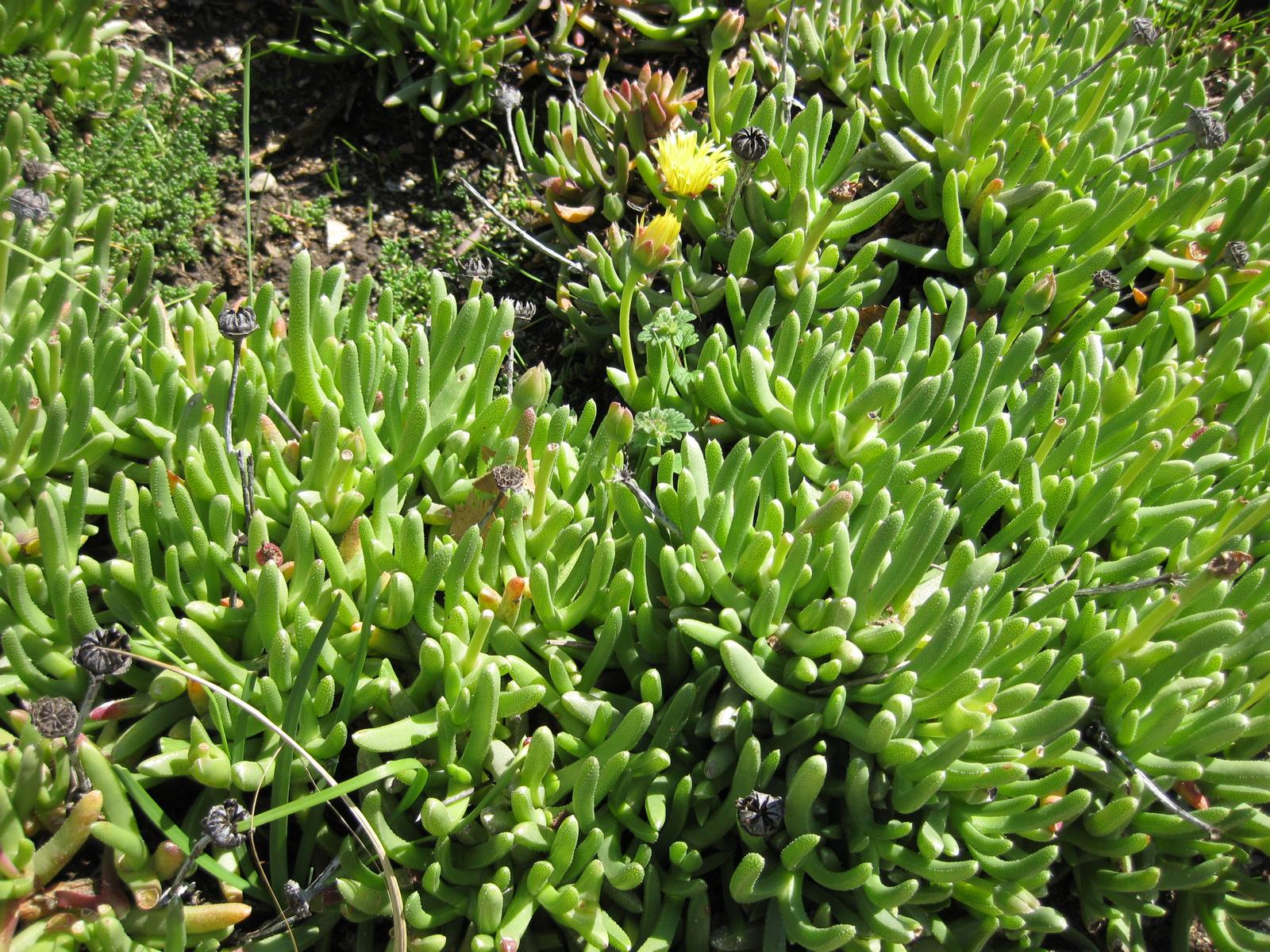 Photographed at Huntington Gardens (Los Angeles, California) in March